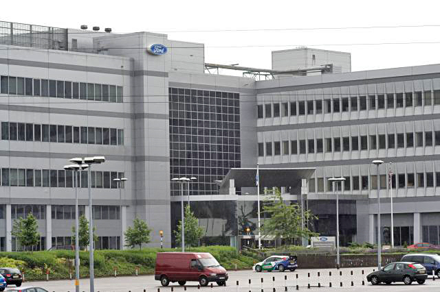 Ford's Dunton Technical Centre. "Automobile Research Centre" on the OS maps.